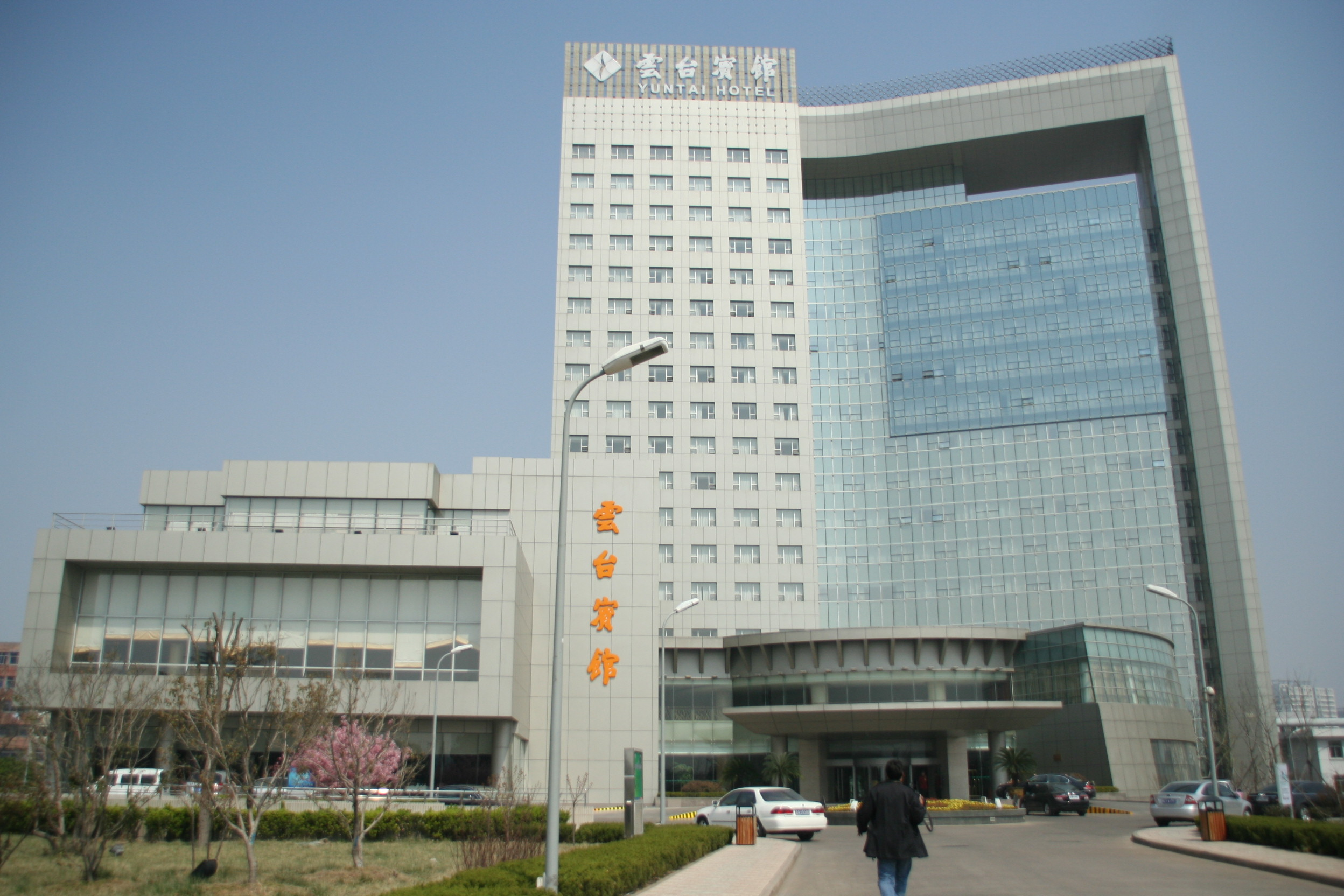 YUN TAI HOTEL of lianyungang city